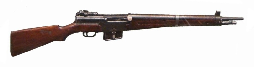 French rifle MAS 49. Image cropped from Image:Vietnam-era firearms.jpg